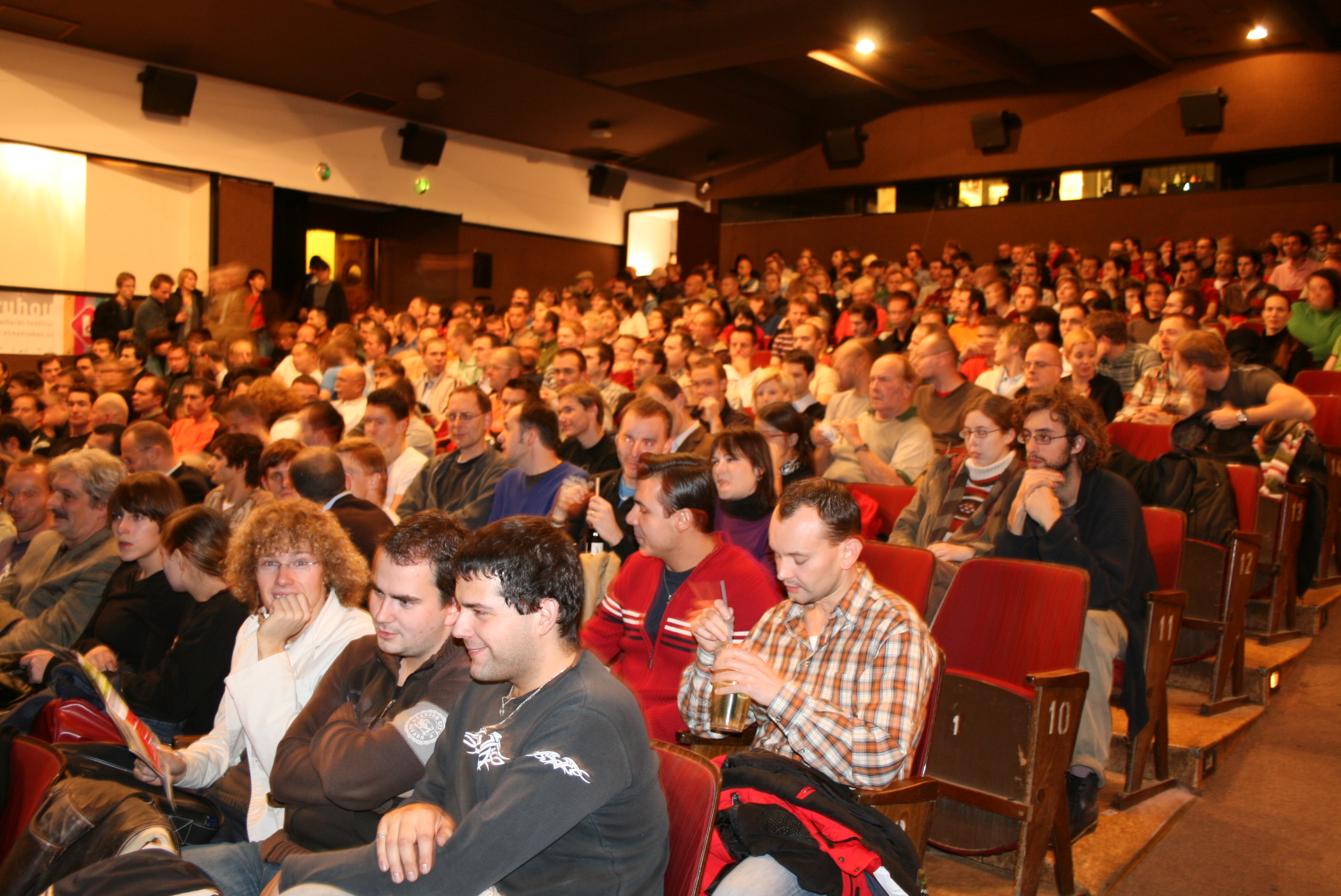 The ending ceremony of the 8th Czech Gay and Lesbian Film Festival Mezipatra in the Svetozor cinema, Prague.